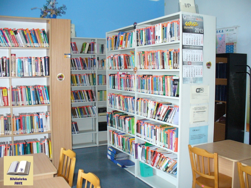 Reading room in the Library ŚWSZ in Katowice